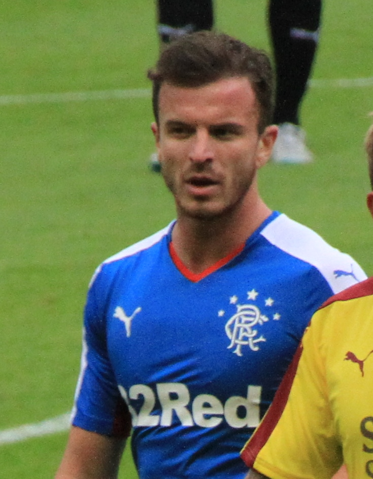 Andy Halliday (Rangers) and Scott Arfield (Burnley) in pre-season friendly.